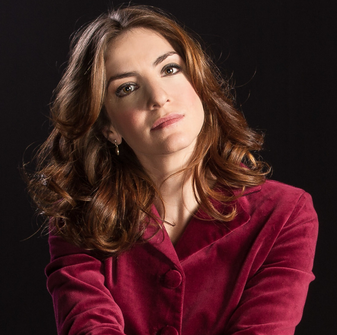 Julieta Zibelberg, Martín Slipak y Darío Grandinetti. En terapia 3ra temporada. Foto TVP 2014